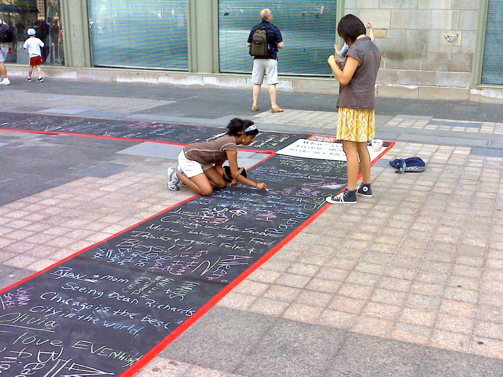 ChicagoNow chalk-blog